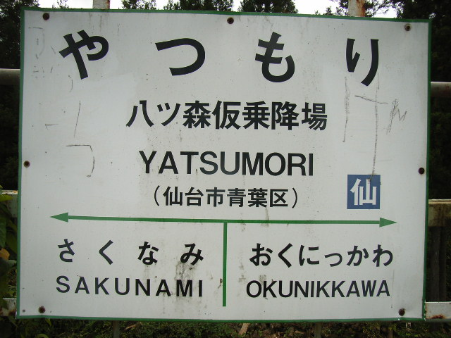 A Name plate of the Yatsumori Station of the Senzan Line. Nikkawa, Aoba ward, Sendai, Miyagi prefecture, Japan. From the platform of the Yatsumori Station, toward east.